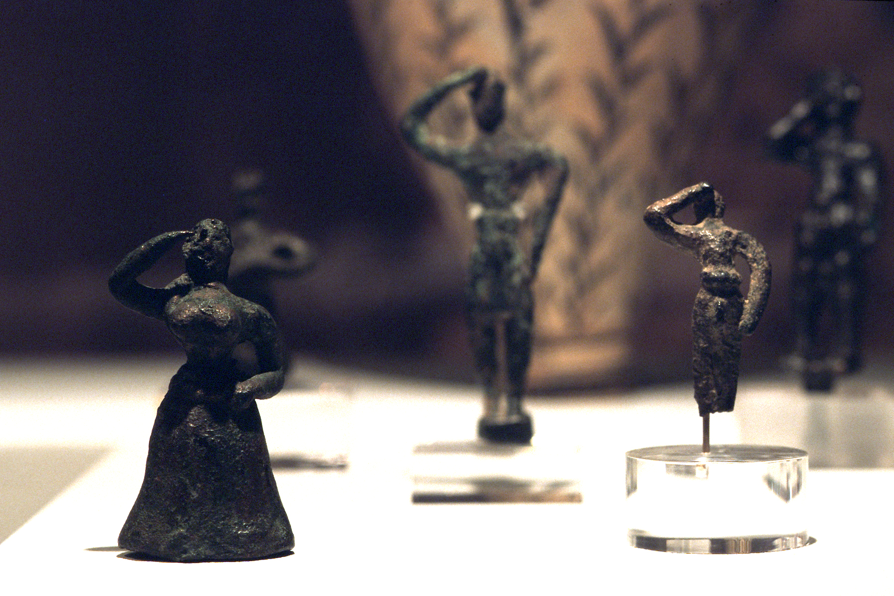 Very little sculptures from Minoan Crete